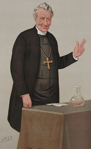 Caricature of Edward King (1829-1910), Bishop of Lincoln. Caption read "a persecuted Bishop".